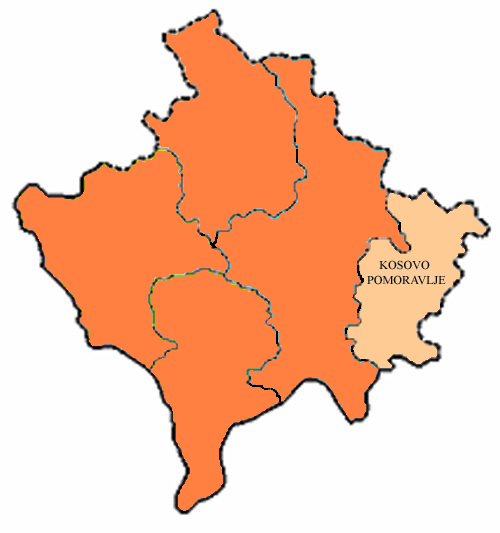 File derived from [1] or similar Wikipedia image with color-change to focus on a single district.